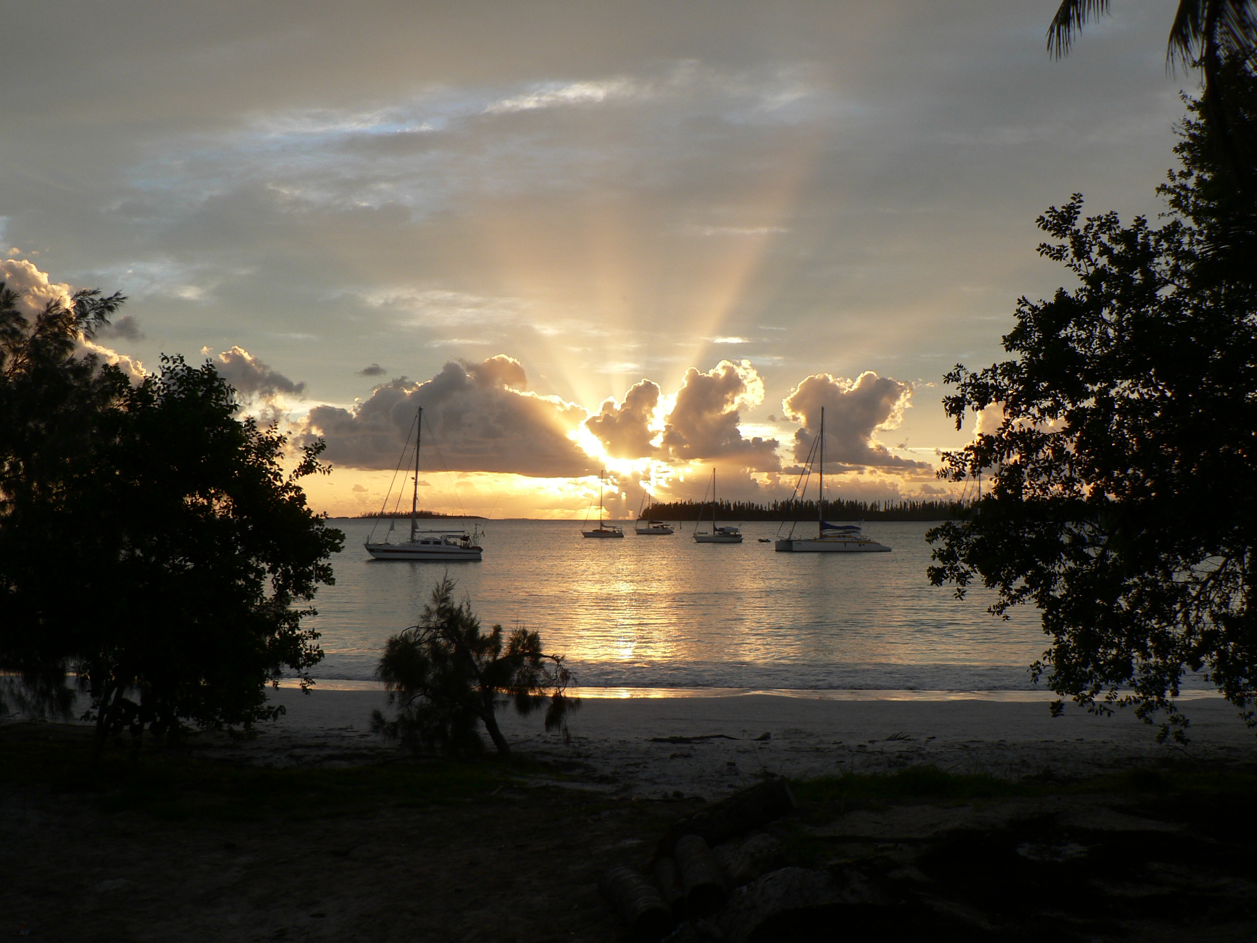 Sunset of the Pines Island, New Caledonia